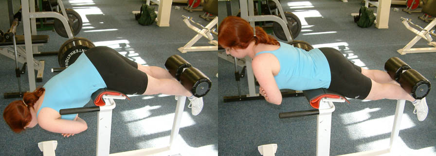 Thanks go to the model, Emily.